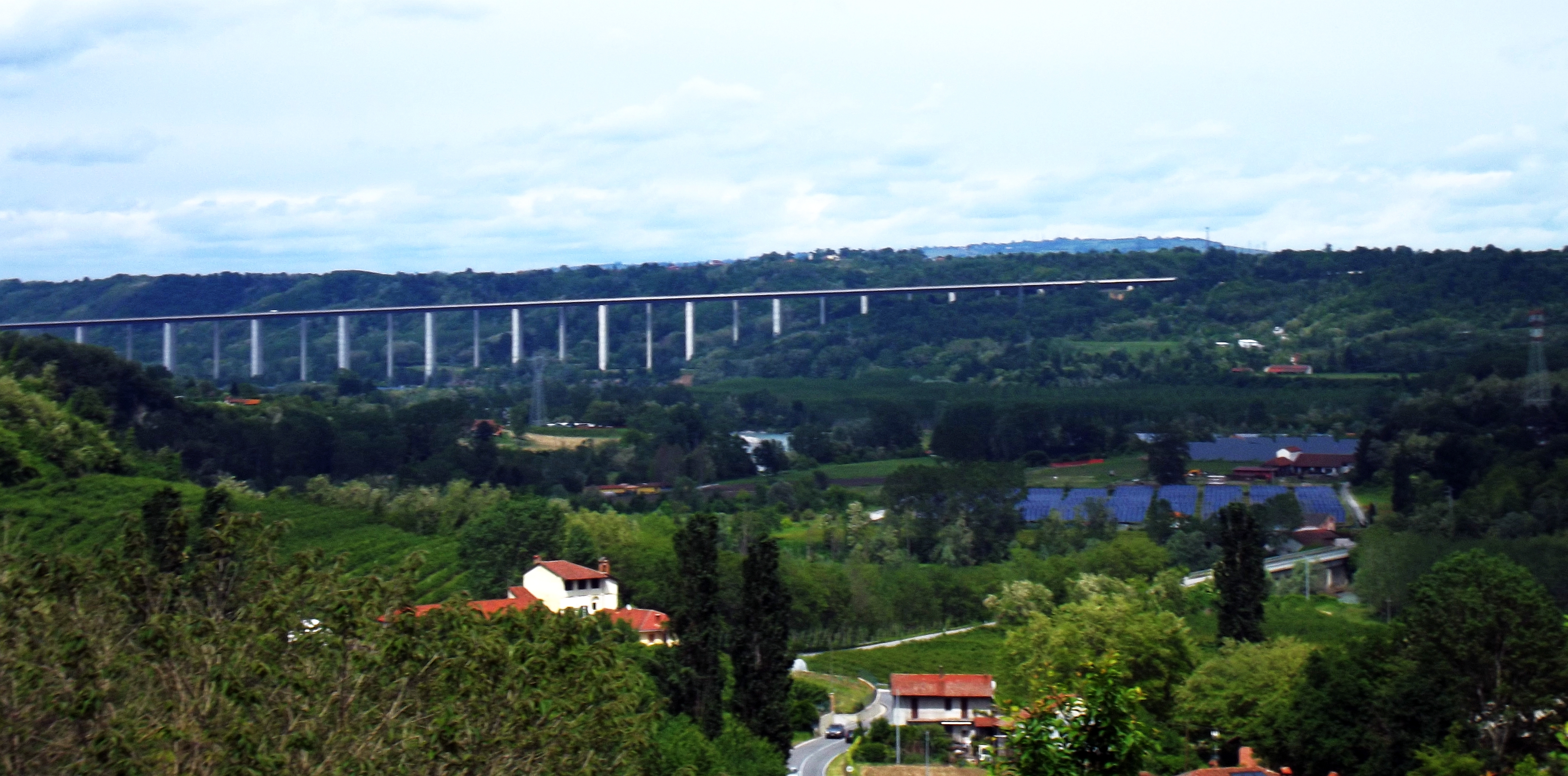 A6 bridge on Stura di Demonte seen from Fossano (CN, Italy)